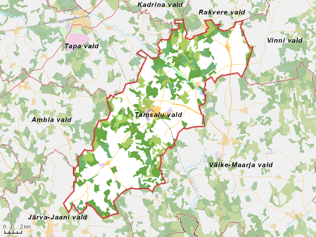 Map of municipality in Estonia